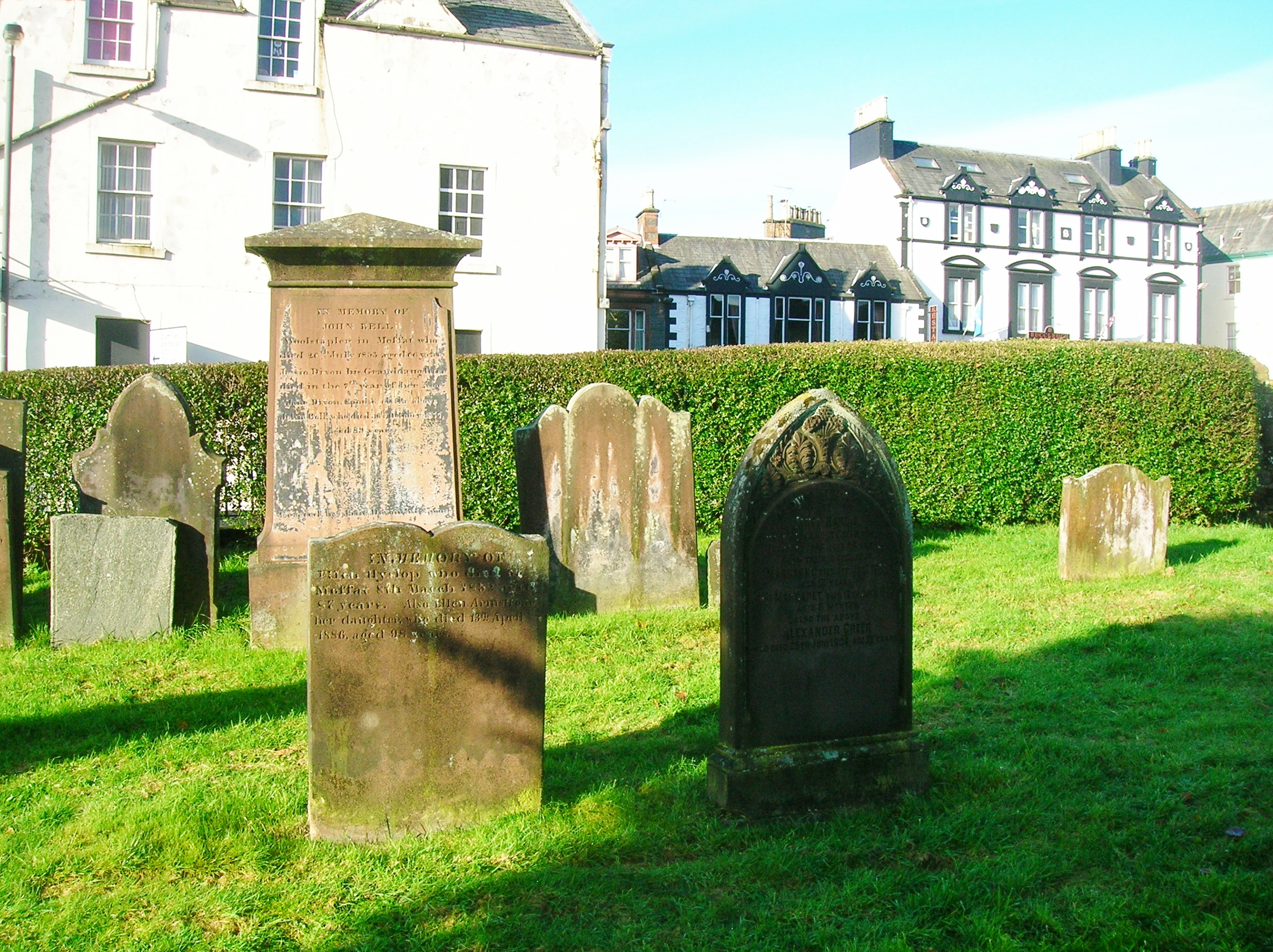 Helen Hyslop's gravestone in the old cemetery and Moffat town centre, Scotland.